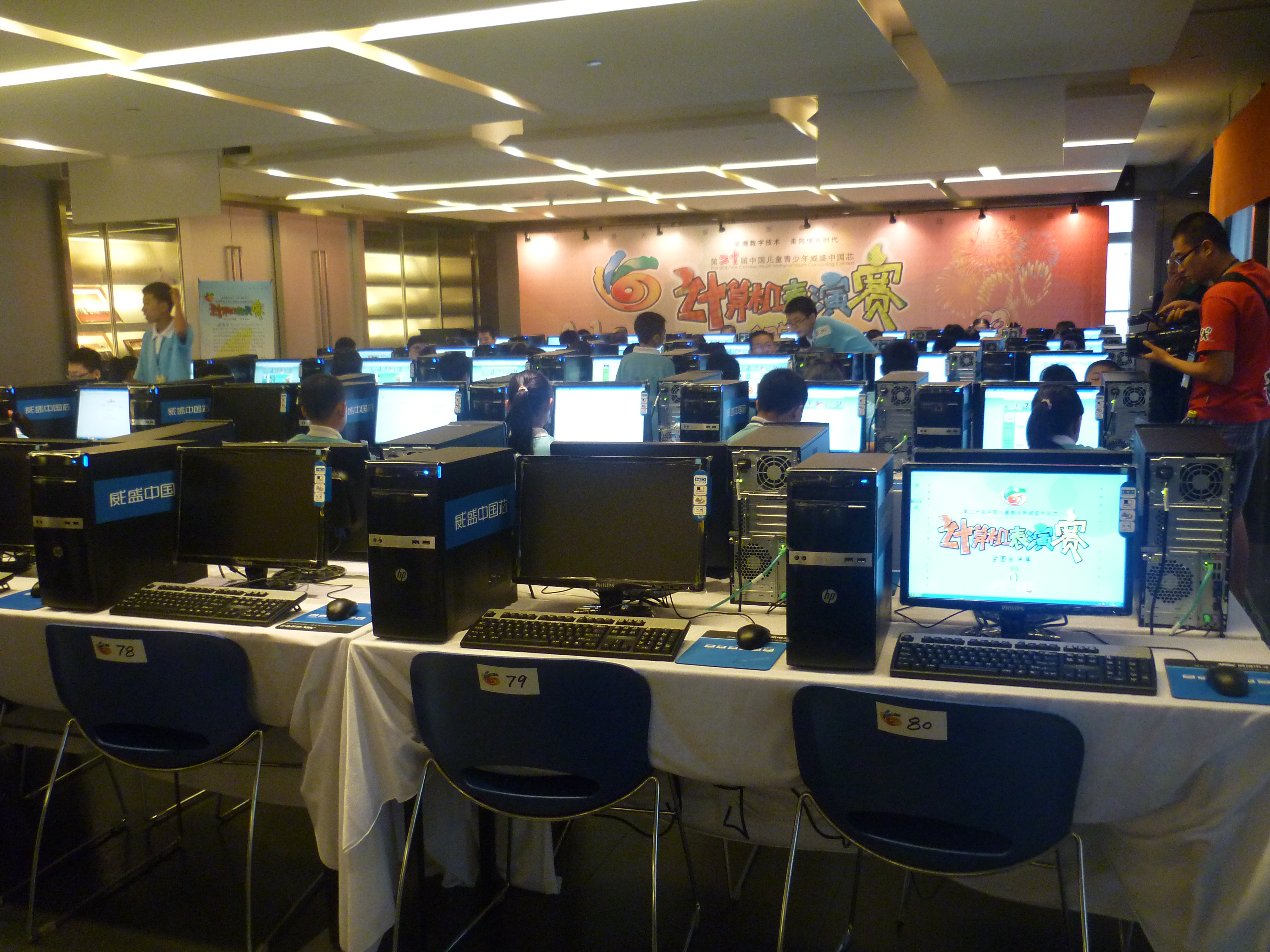 The 20th 'VIA Chinese Heart' National Youth Computing Contest, China, sponsored and held by VIA, final.